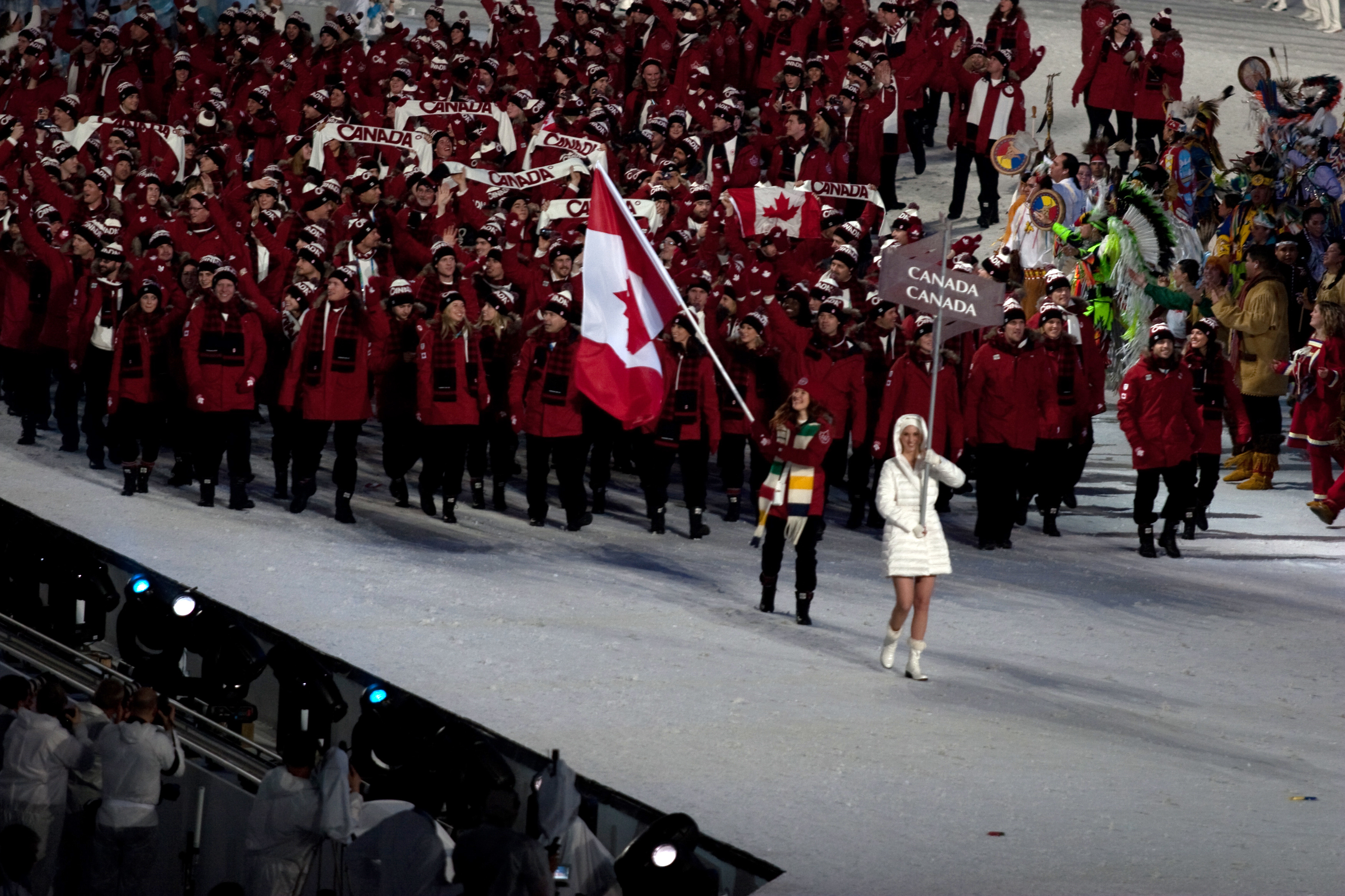 The Canadian athletes enter the stadium at the opening ceremony of the 2010 Winter Olympics. Visible at the front carrying the flag is Clara Hughes.